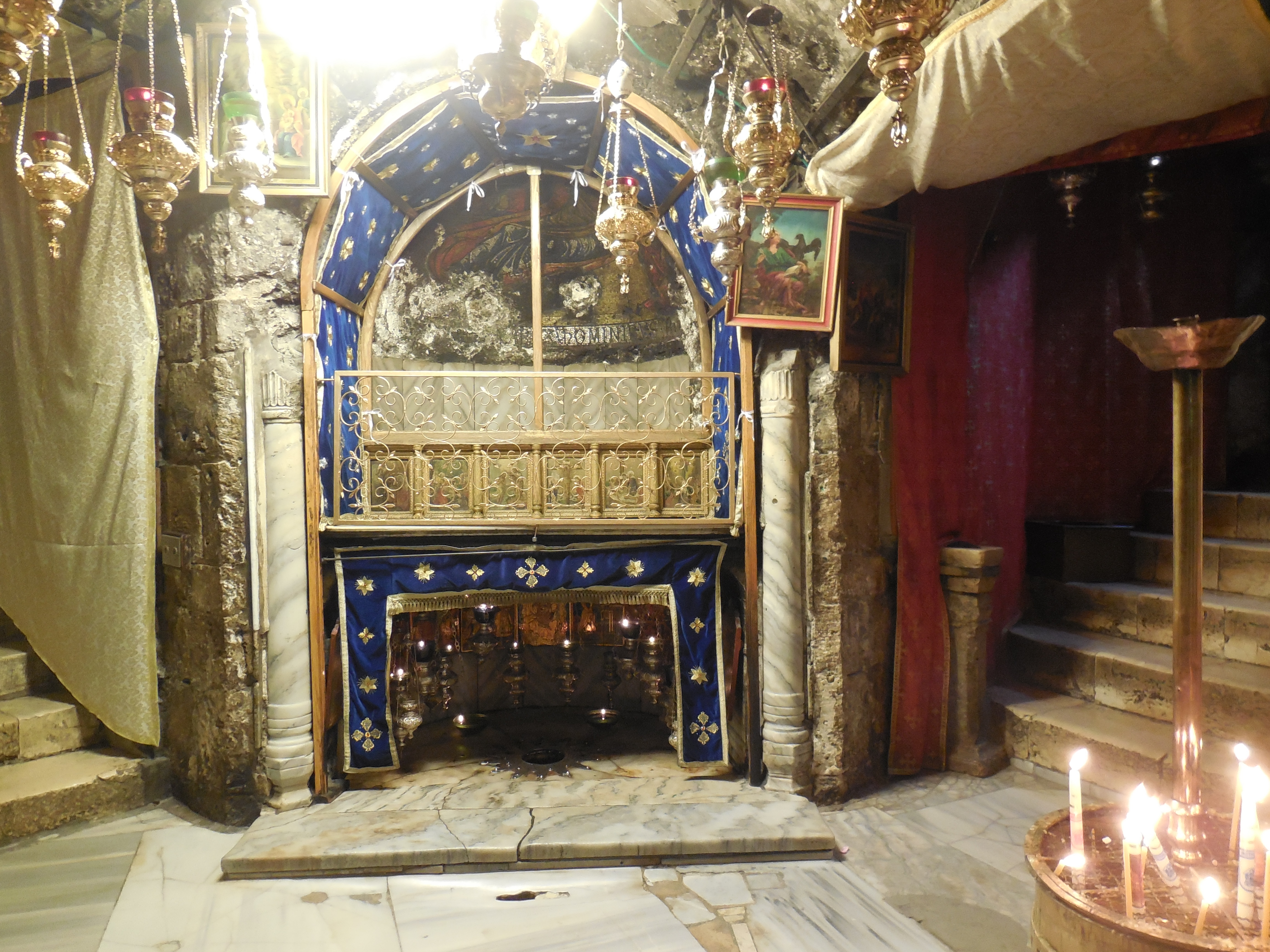 The place of the birth of Jesus Christ, Bethlehem, Palestina